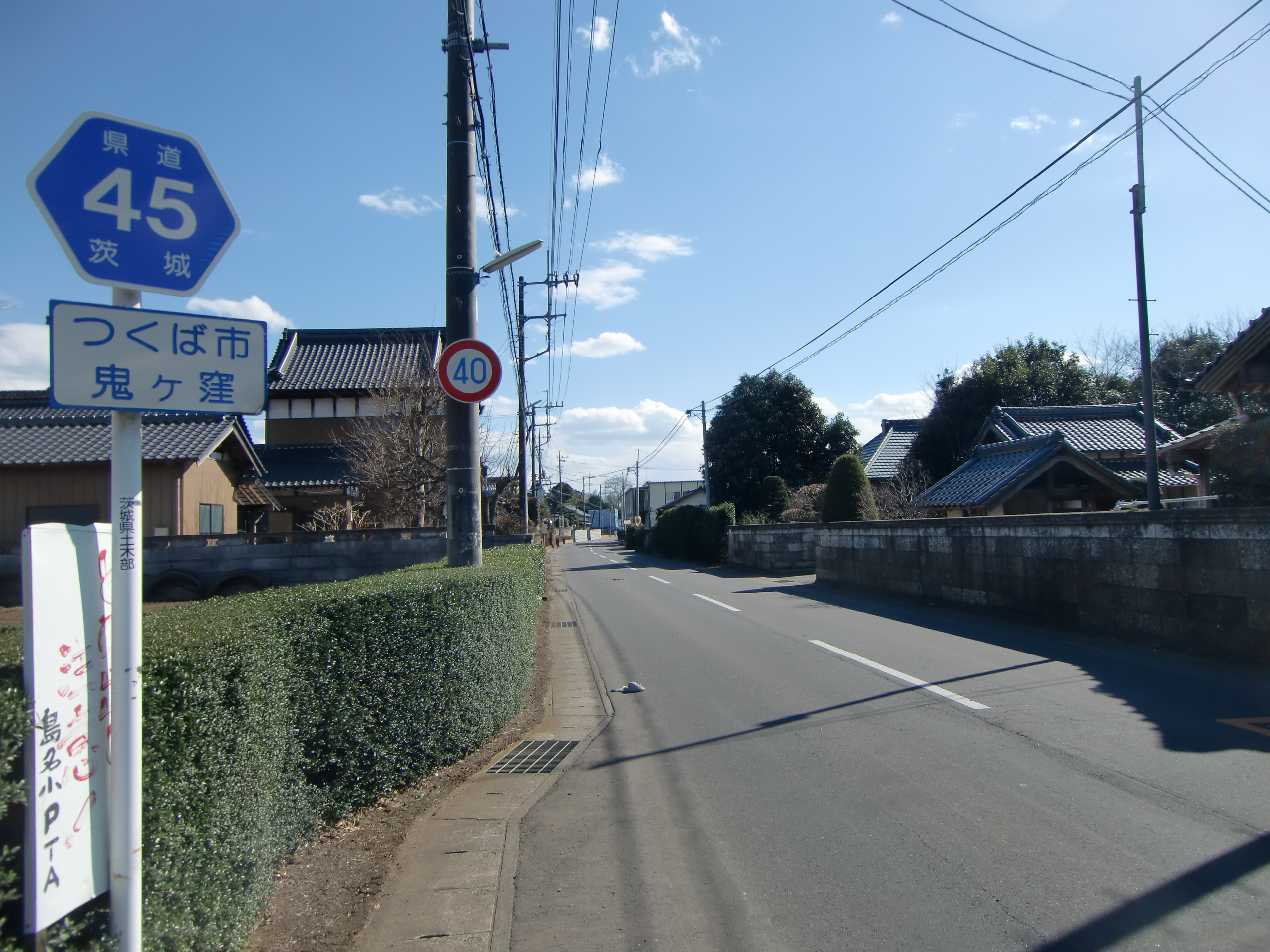 Ibaraki prefectural road 45(Tsukuba-Moka line) in Onigakubo, Tsukuba, Ibaraki, Japan.